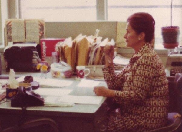 Zofia Korbonska at VOA in the 1970s. (VOA)